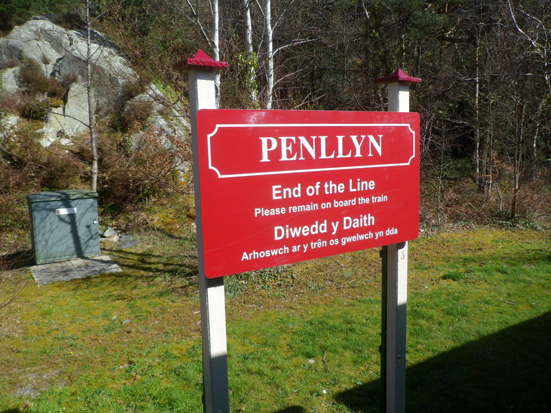 Sign at Penllyn terminus, LLR. There are several similar signs positioned along the trackside so that all passengers on a train can see that they should remain on board here. Penllyn is the western end of the Llanberis Lake Railway where the locomotive is uncoupled and moved to the opposite end of the train for the return journey. There are no passenger facilities here.